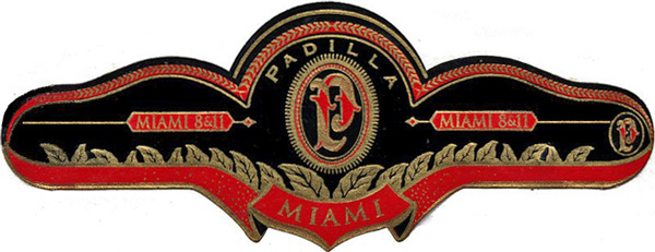 Scan of Padilla Miami cigar band